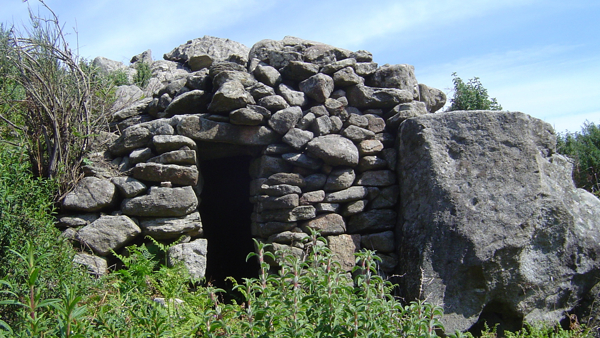 Elba island